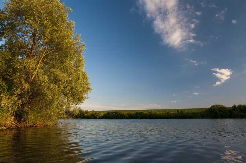 Lake in Atraykle village, Tatarstan, Russia